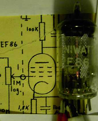 Pentode vacuum tube PF86 with symbol in circuit diagrams on the left